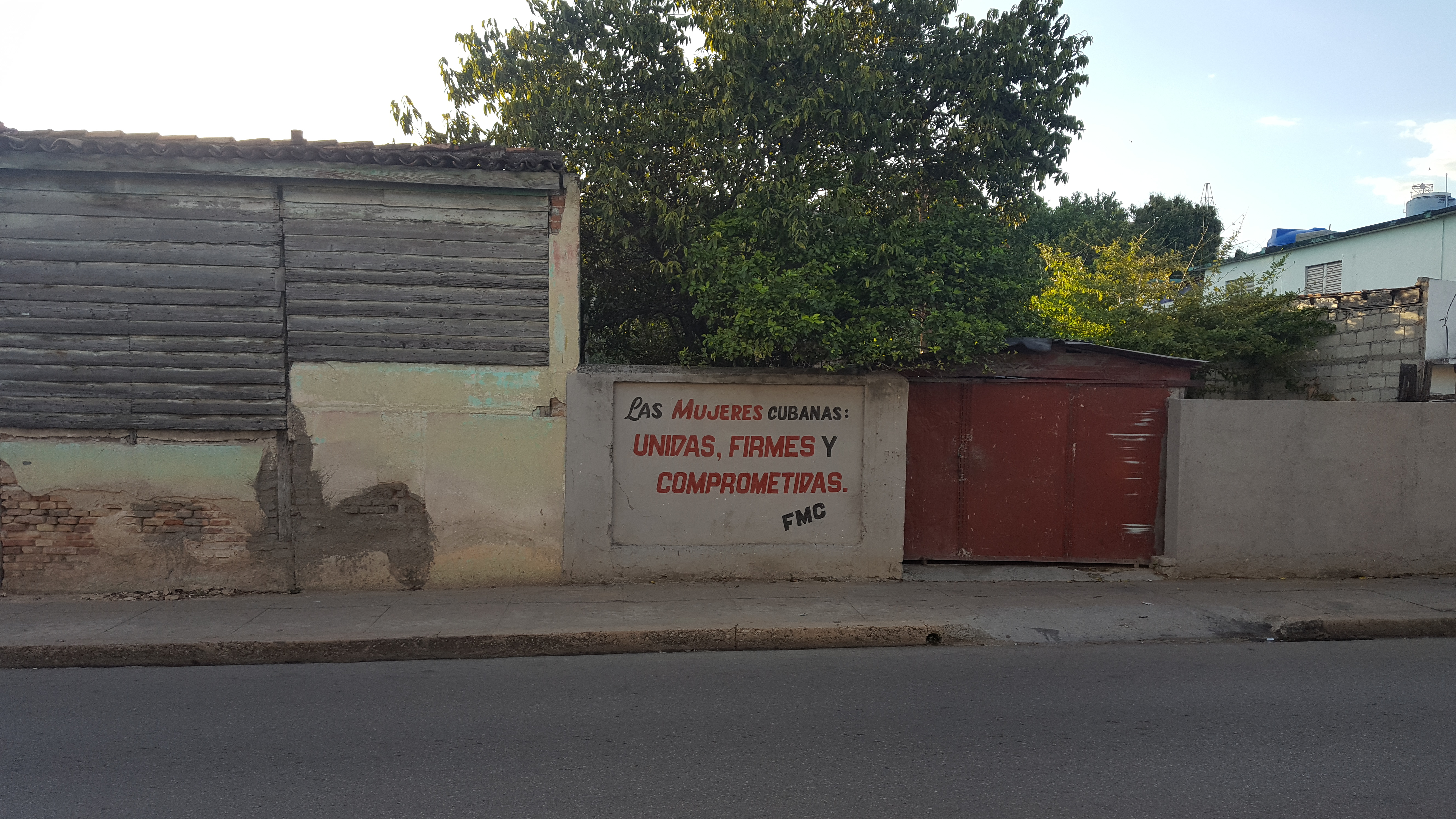 Mural in Cienfuegos, Cuba, promoting FMC - Federation of Cuban Women. It reads: "Cuban women: united, firm and committed."